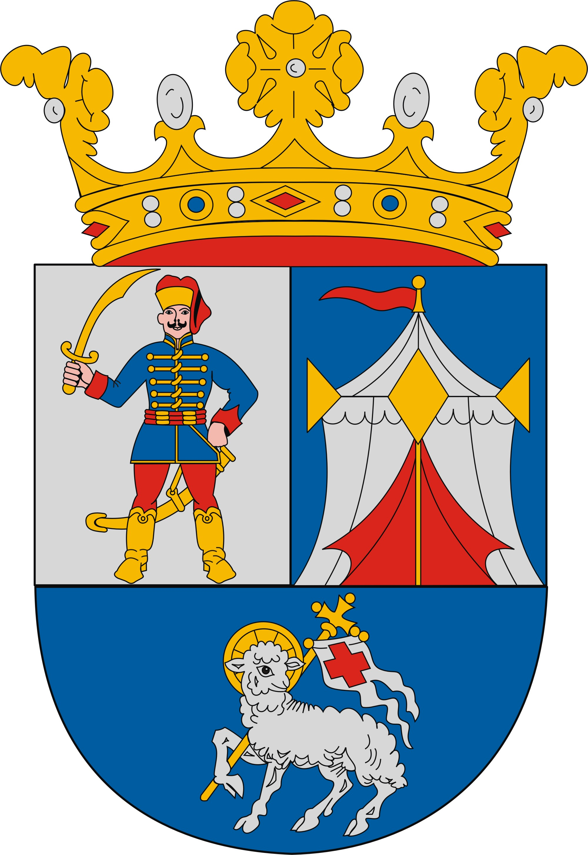 Coat of arms of Kunszállás, Hungary